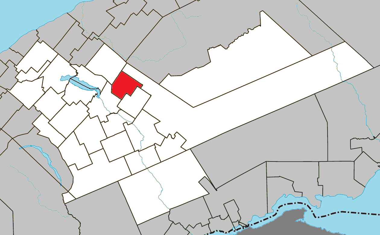 Location of Saint-Tharcisius, Quebec within La Matapédia Regional County Municipality.